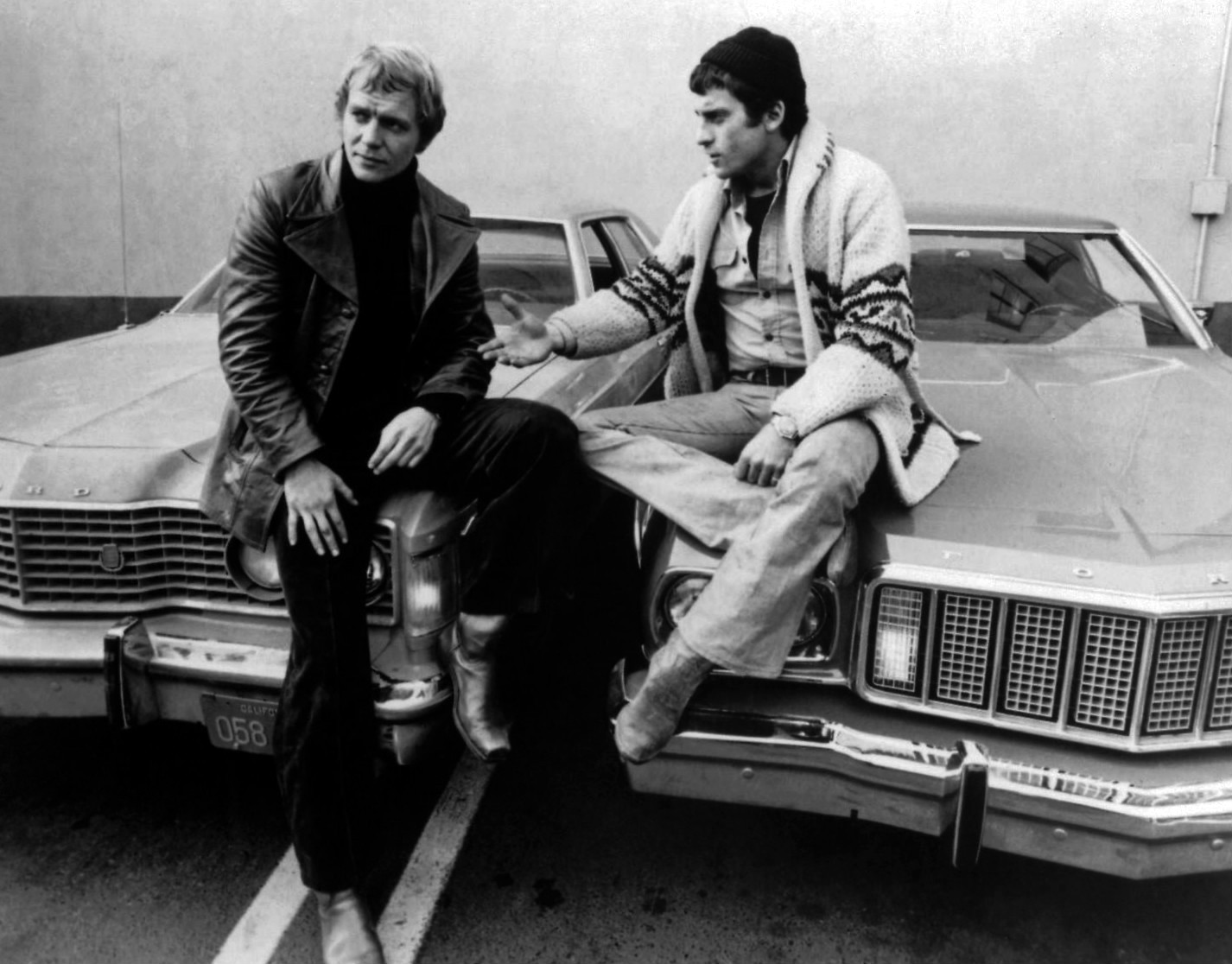 Photo of David Soul as Ken Hutchinson and Paul Michael Glaser as David Starsky from the premiere of the television series Starsky and Hutch.